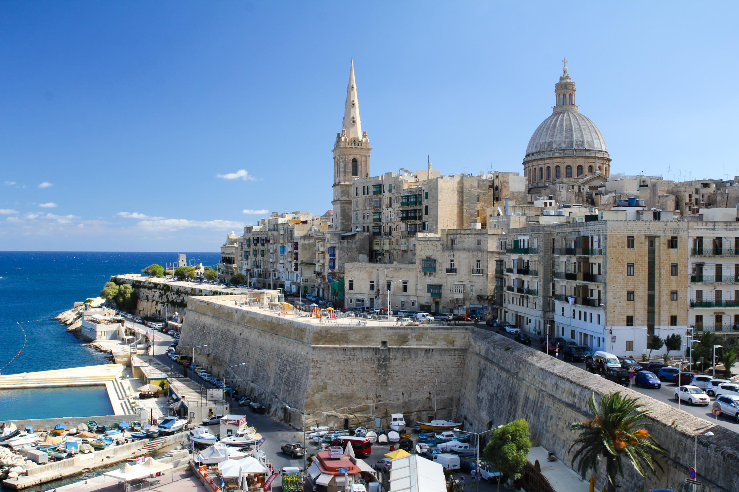 Basilica Our Lady of Mount Carmel and St Paul's Pro-Cathedral, Valletta, Malta